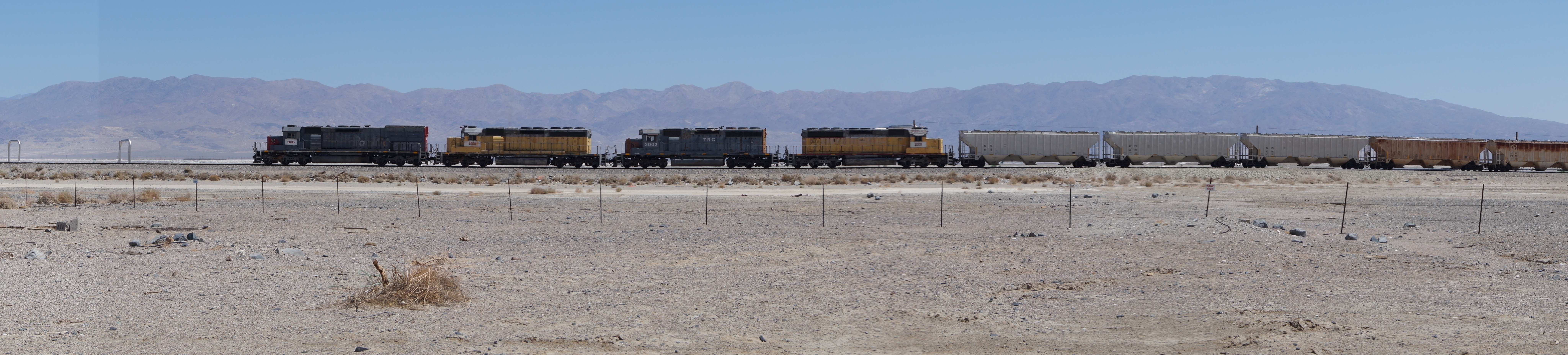 The Trona Railway (reporting mark TRC) is a 30.5 mi (49.1 km) short-line railroad owned by Searles Valley Minerals.